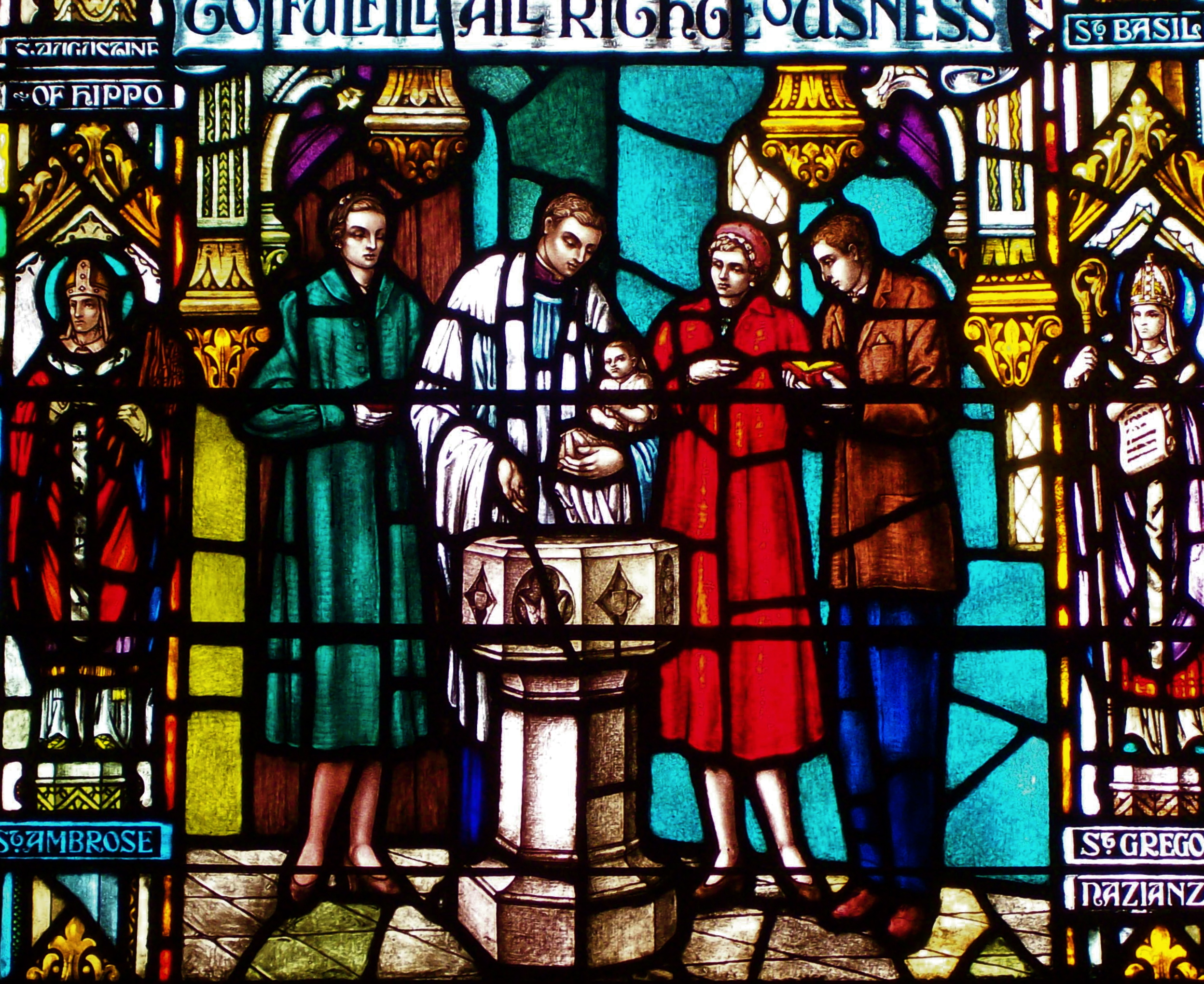 Detail from the "Baptism Window" at St. Mary's Episcopal Cathedral in Memphis, Tennessee, created by Len R. Howard, mid-20th Century. Note the early-mid 20th Century clothing styles of the parents and godparents.